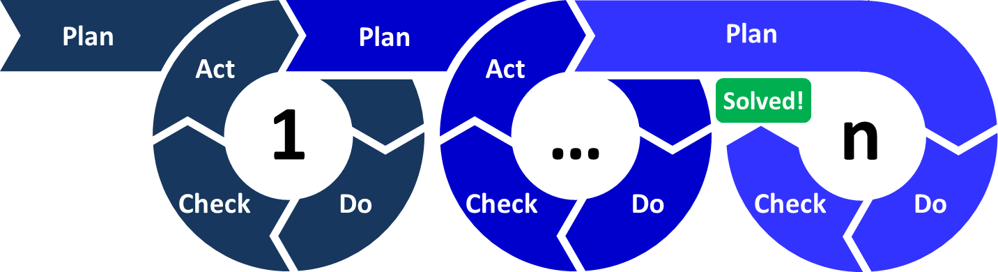 Multiple iterative loops of a PDCA (plan, do, check act) cycle, also known as Deming Cycle. The loops are repeated until the problem is solved.